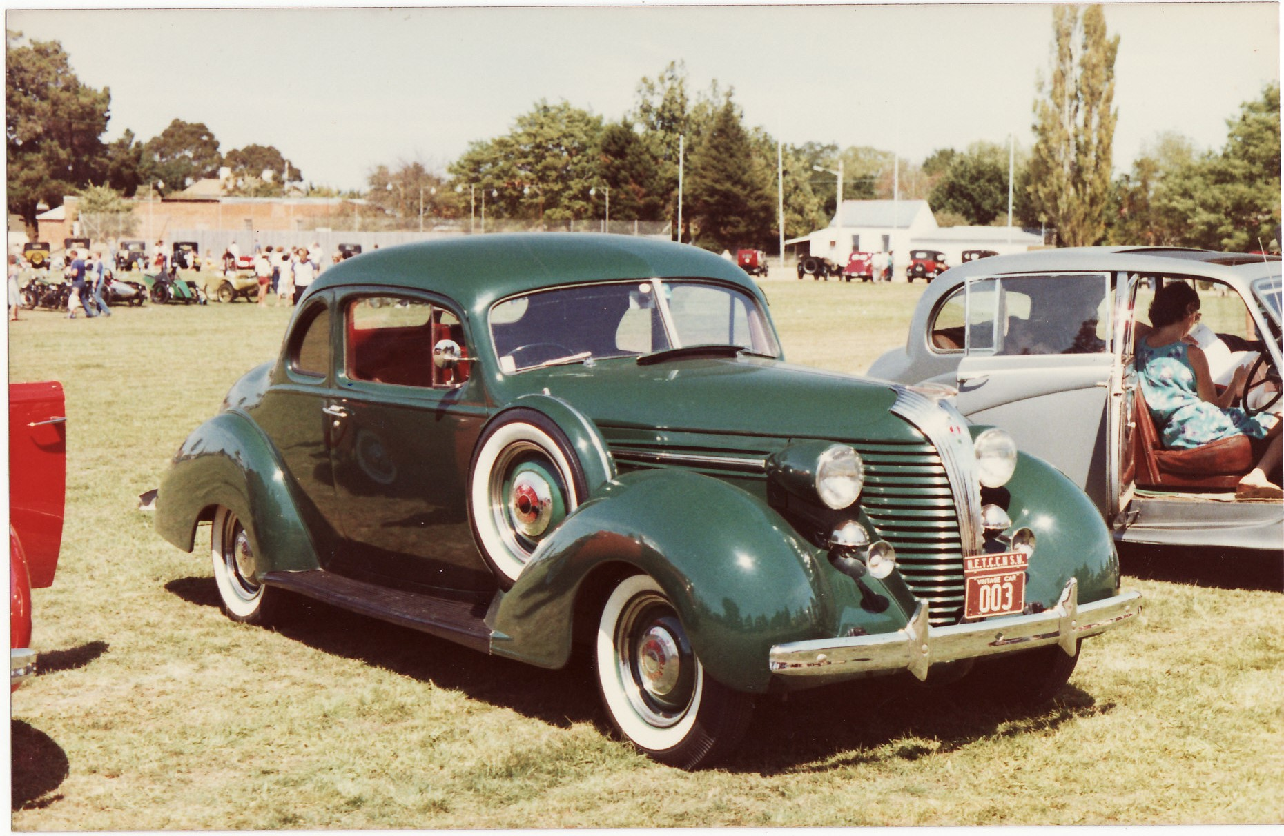 At a Rally in Australia, c.1981